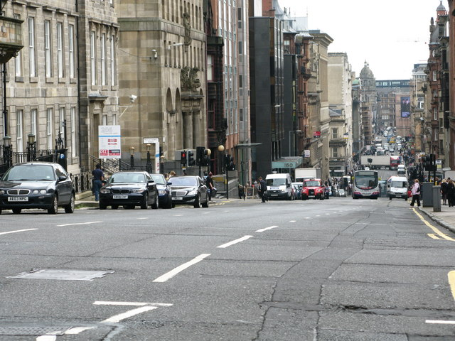 St. Vincent Street Looking along St. Vincent Street towards the city centre from the highest point of the street.